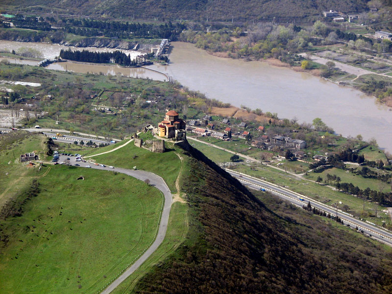 Cross Monastery in Mtskheta from the helicopter